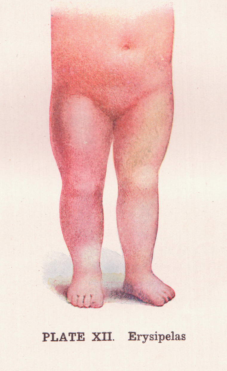 Between pages 280 and 281, this illustration of a child's legs is to show Erysipelas. Title The practical guide to health: a popular treatise on anatomy, physiology, and hygiene, with a scientific description of diseases, their causes and treatment : designed for nurses and for home use: Author Frederick Magee Rossiter Publisher Pacific Press Pub. Assn., 1913 Length 660 pages Flickr data on 2011-08-17: Tags: public domain, image, drawing, illustration, vintage, book, medical, The Practical Guide to Health License: CC BY 2.0 User: perpetualplum Sue Clark